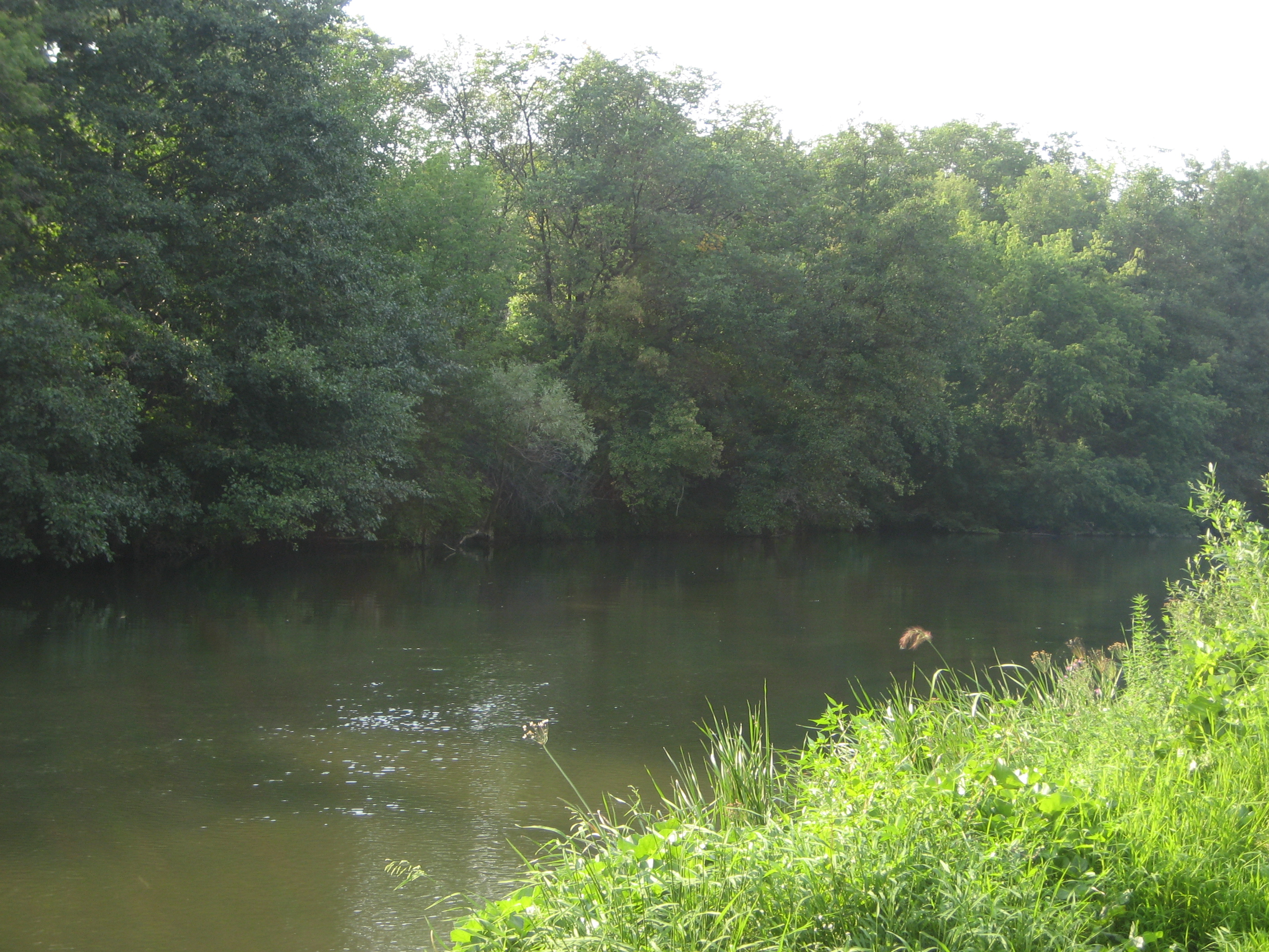 The river Tershka near Kryajim (Saratov region)